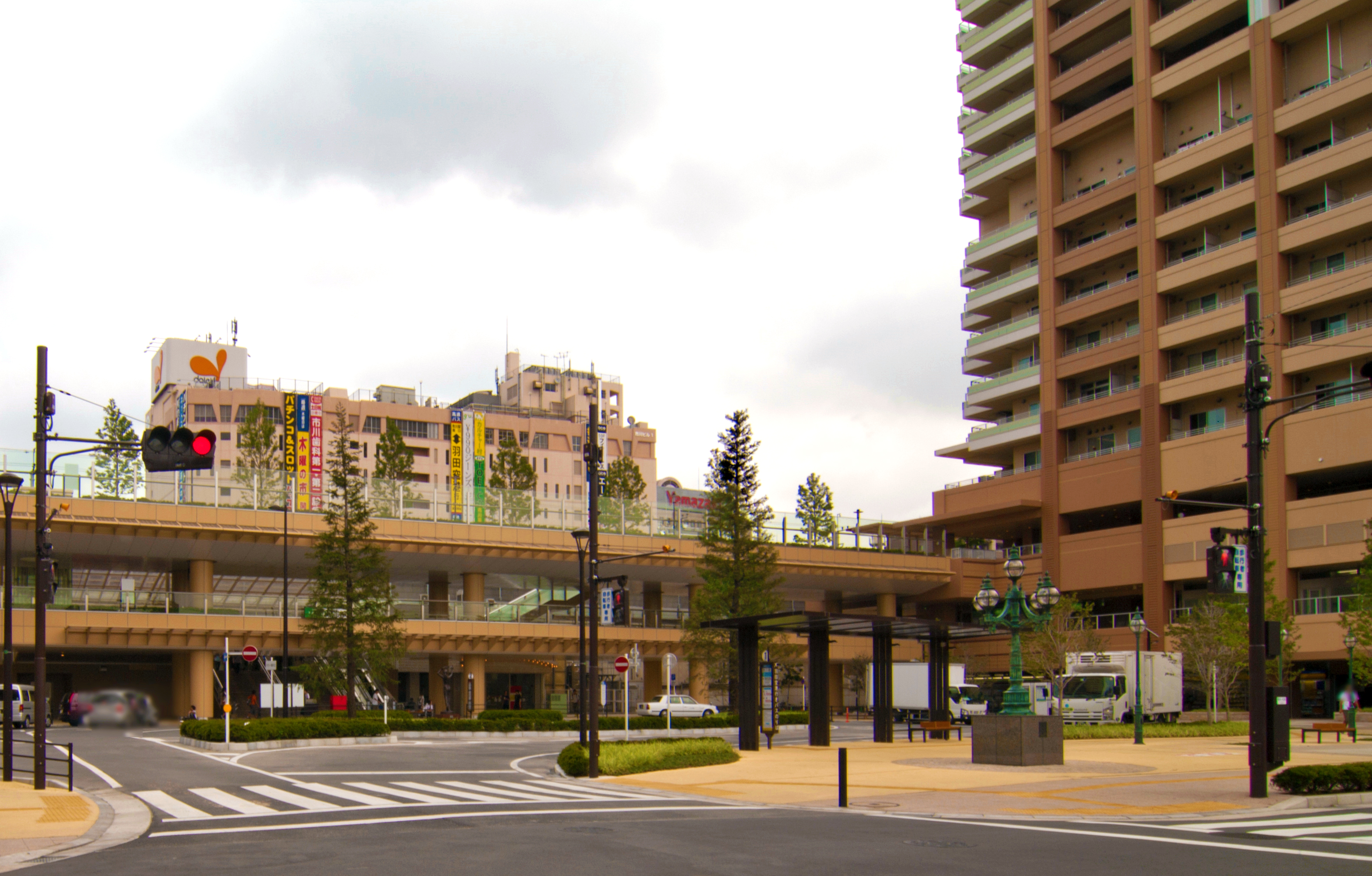 The south entrance and forecourt of Ichikawa Station in Chiba Prefecture, Japan